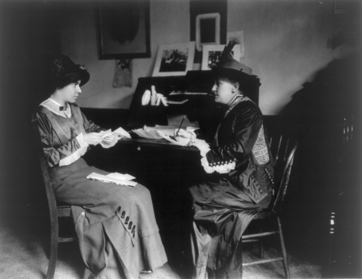 Mrs. Helen Gardener and Miss Alice Paul, seated, full-length portrait, at desk. Between ca. 1908 and 1915